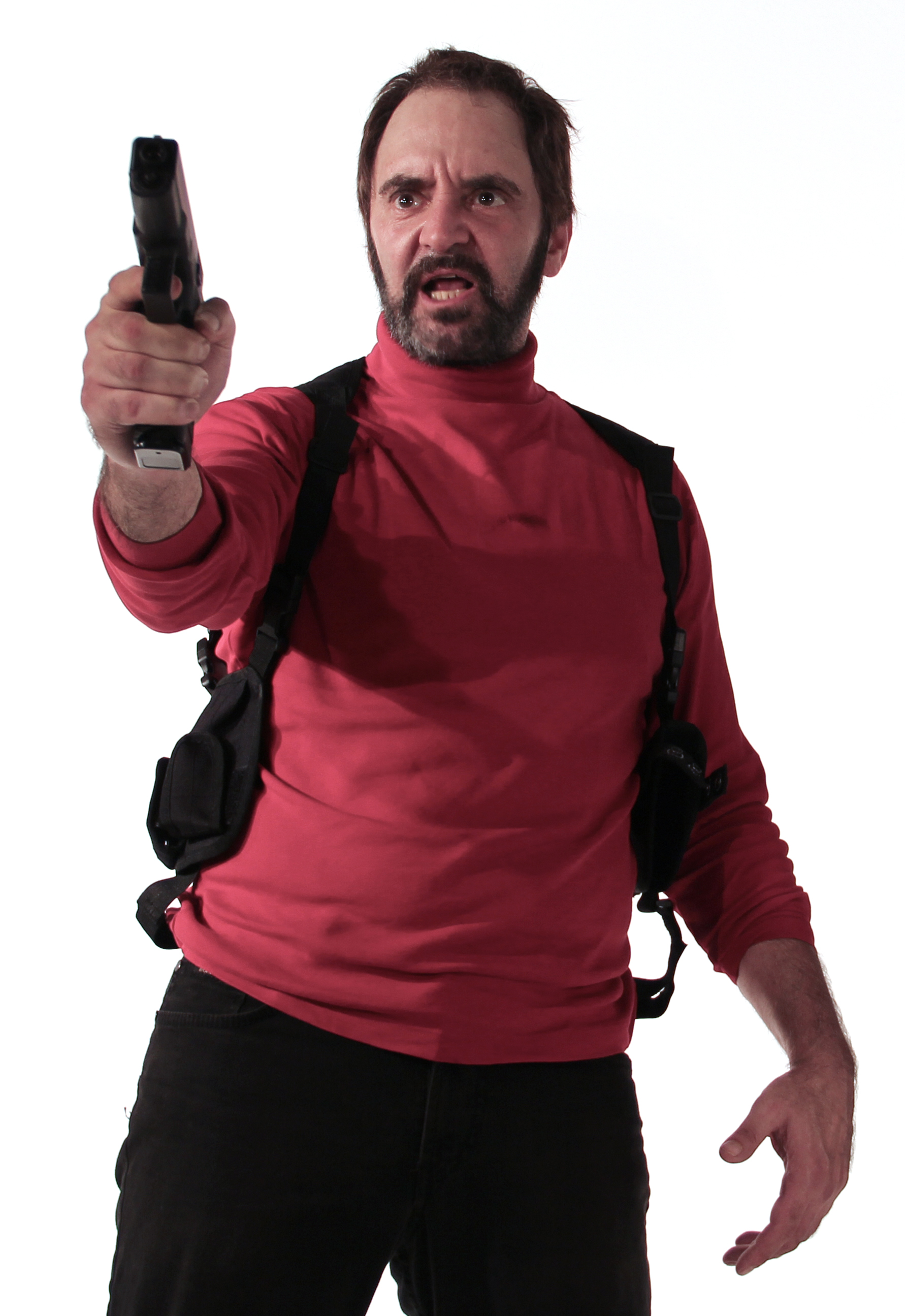 Rick Shapiro in the film Timeless, produced and directed by Alexander Tuschinski.